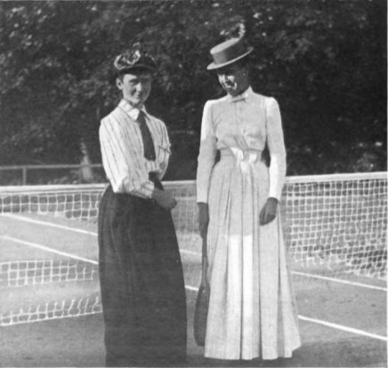 left: Mabel Cahill (1863-1905), Irish tennis player, US champion 1891, 1892 right: Emma Leavitt Fellowes Morgan, US tennis player